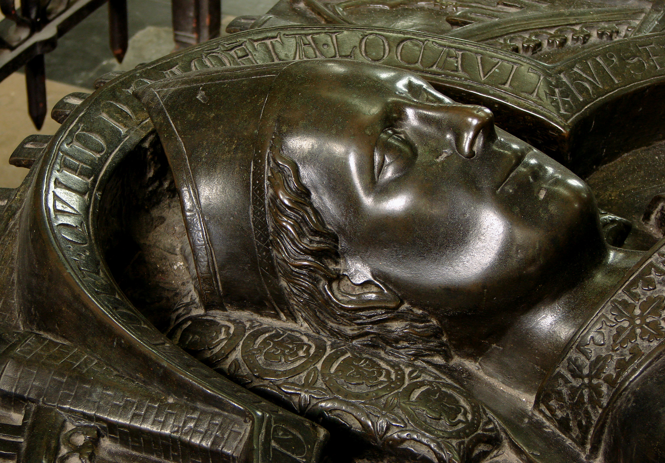 Recumbent figure of Evrard de Fouilloy, bishop of Amiens (1211-1222), bronze, 13th century, in Amiens Cathedral.